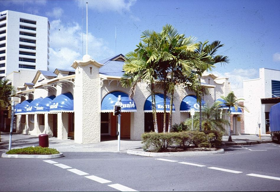 Adelaide Steamship Co Ltd Building, 2008